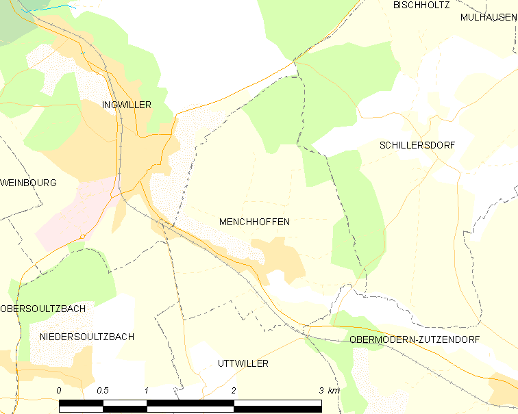 Map of French municipality